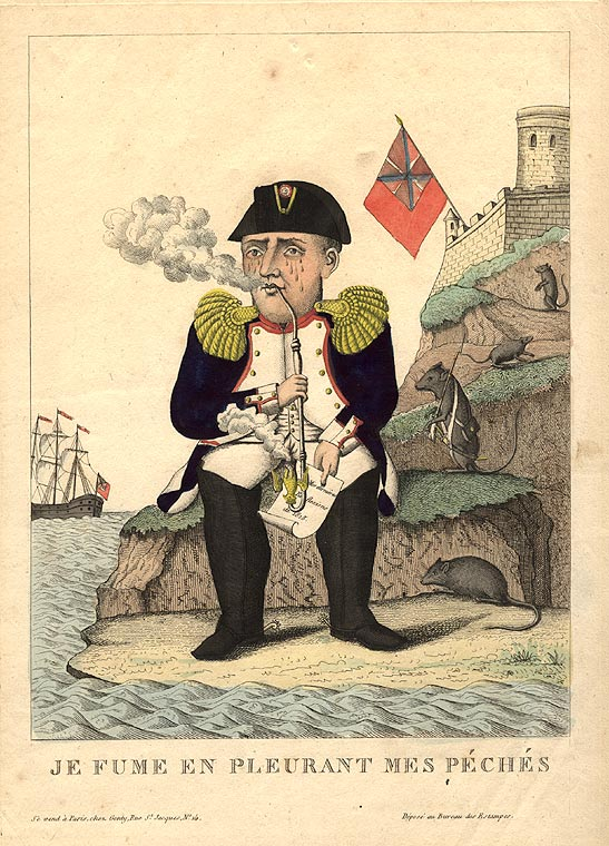 I smoke and cry about my sins